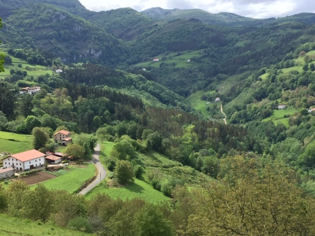 Etxabe and Etxabegoien farmhouses, Alkiza